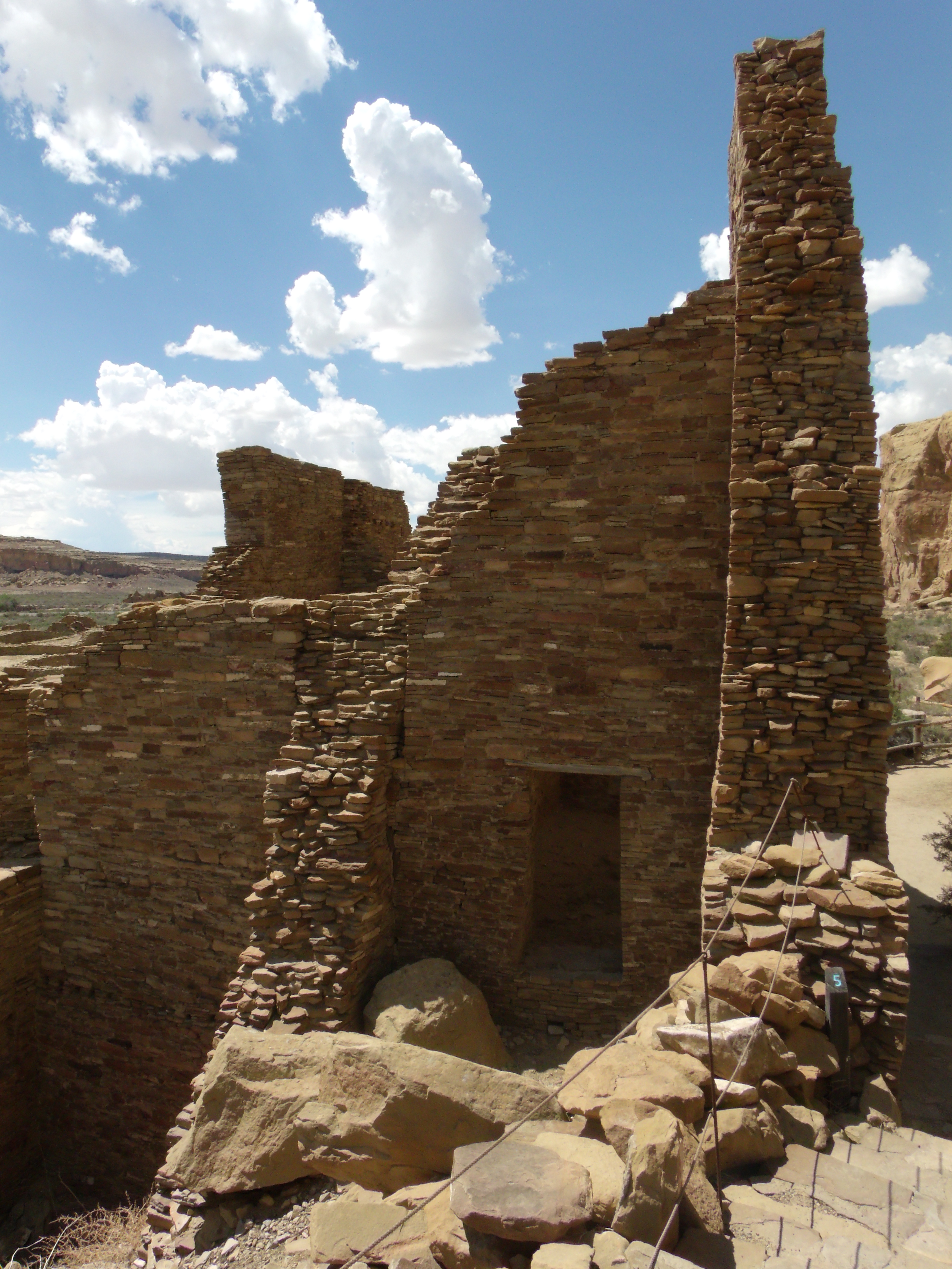 Chaco Culture National Historical Park